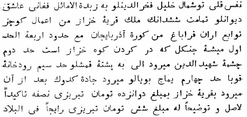 A document on Azerbaijan.